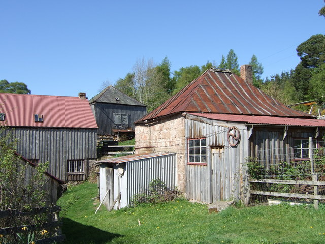 Finzean sawmill Sawmill buildings by Water of Feugh.